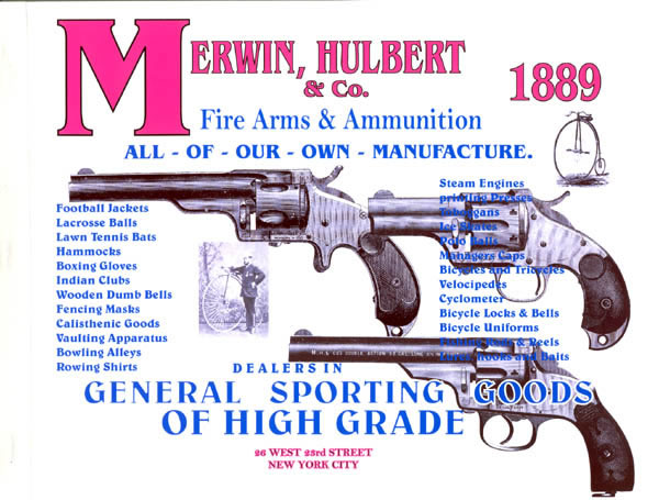 Advertisement for Merwin Hulbert, showing the company's revolvers